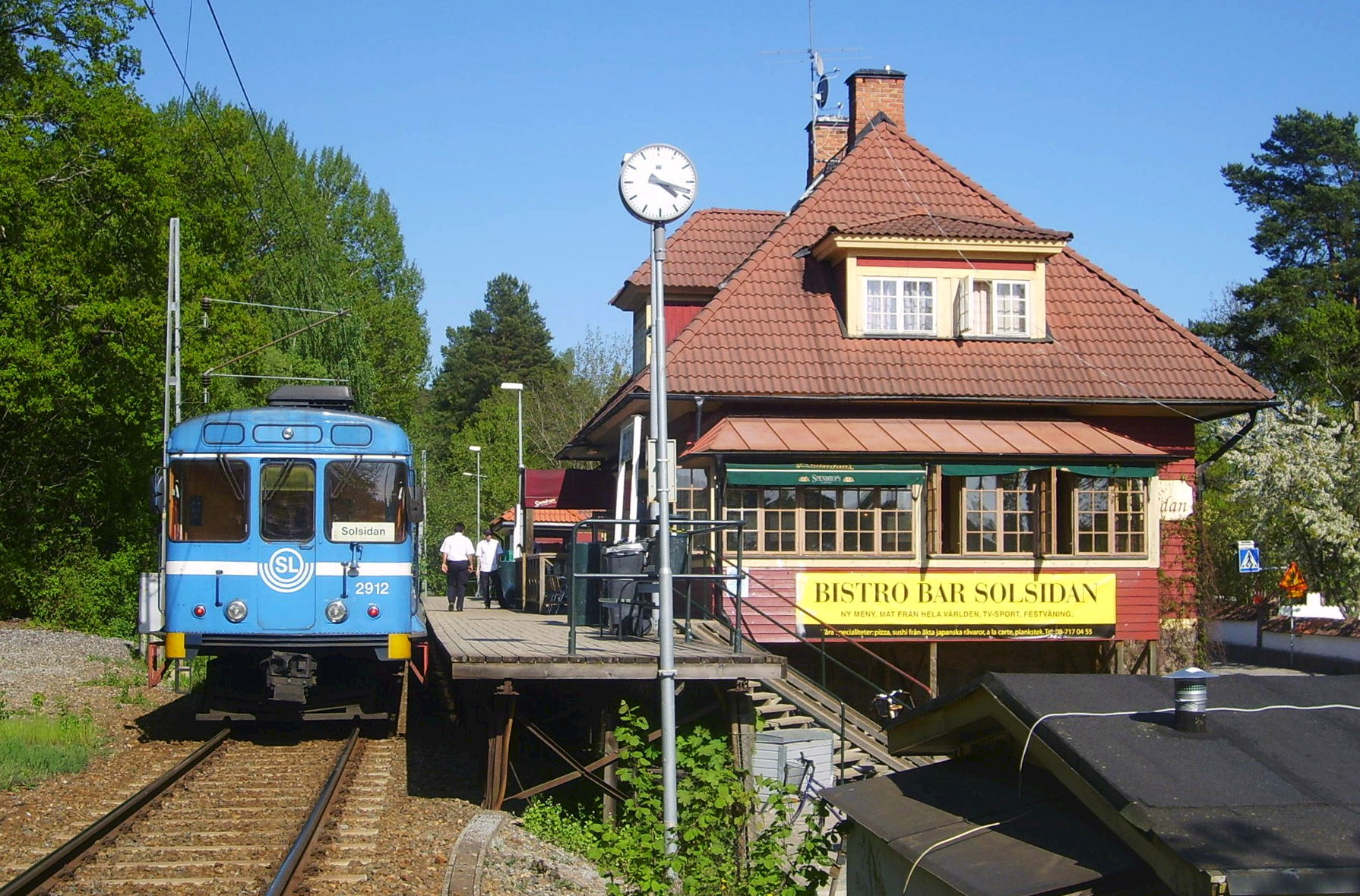 Train station of Saltsjöbanan in Solsidan outside Stockholm in Sweden.